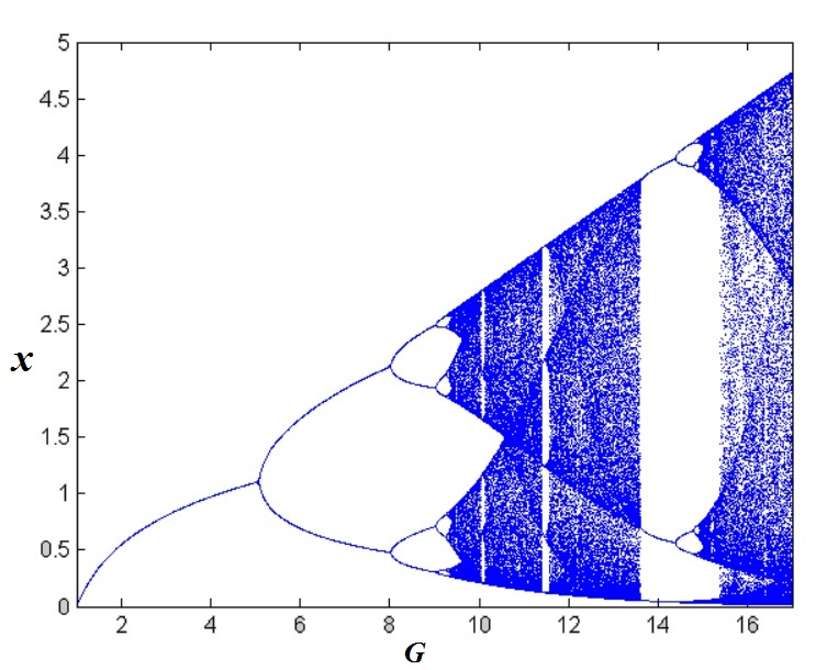 Bifurcation diagram tanh map chaos by Okulov